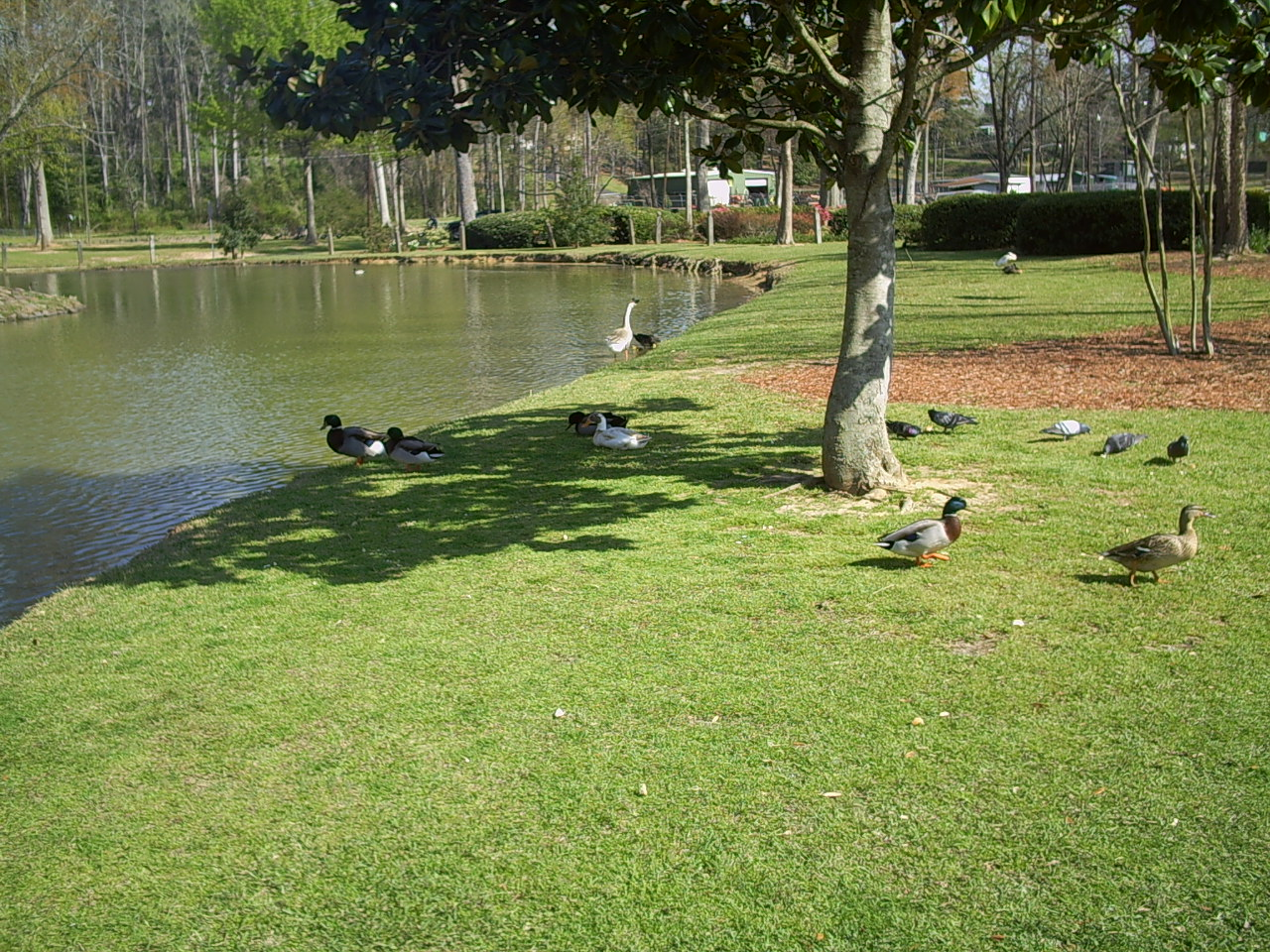 Ducks on the shore in Highland Park in Meridian, MS